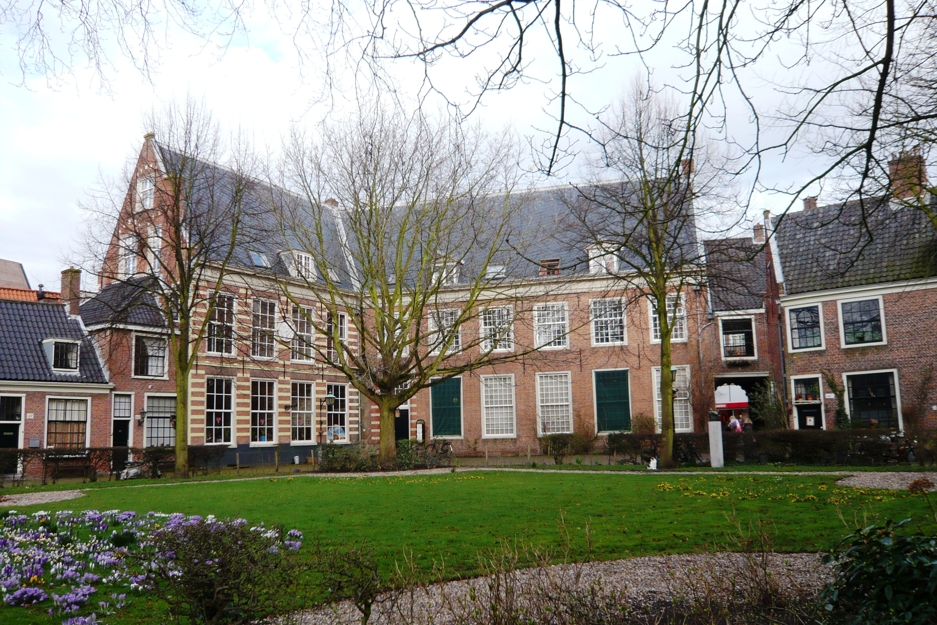 Proveniershuis, or Proveniershofje; view from the garden of the old Doelenzaal and house used by the St. Joris Schutterij, or St. George militia. Grote Houtstraat, Haarlem.